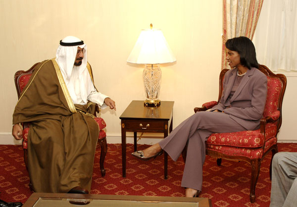 Sheikh Mohammad Sabah Al-Salim Al-Sabah and Condoleezza Rice.